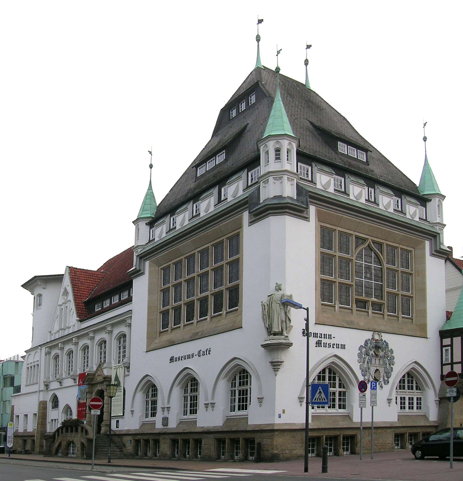 Bomann-Museum, Celle, Germany.